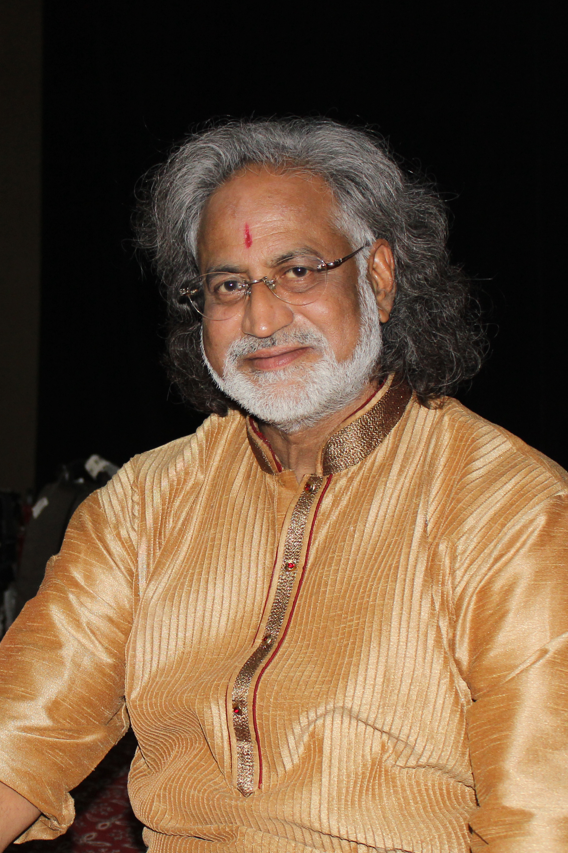 Pandit Vishv Moohan Bhatt after performance at Madhya Pradesh Tribal Museum Bhopal,India in February 2017